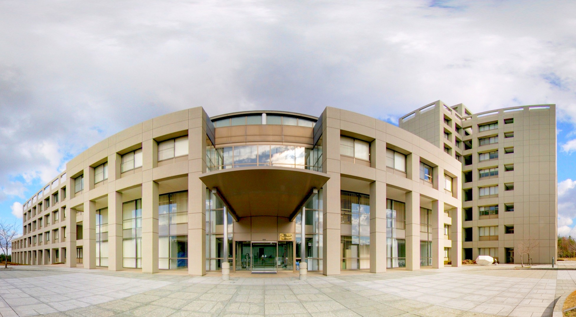 NIFS (National Institute for Fusion Science) at Toki city, Gifu prefecture, Japan.